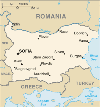 Bulgaria map from CIA World Factbook